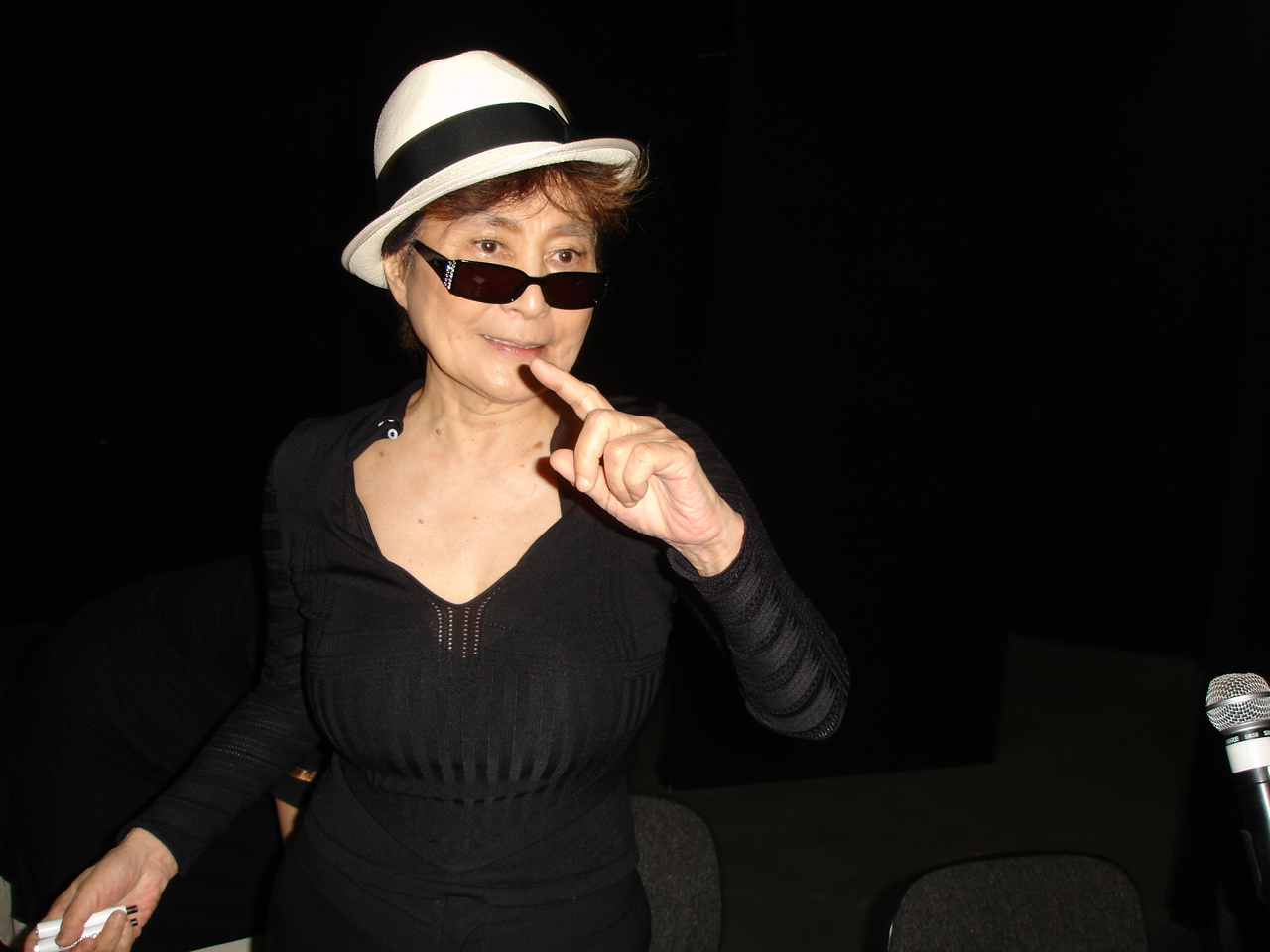 Yoko Ono at the Museum of Contemporary Art of the University of São Paulo, Brazil.